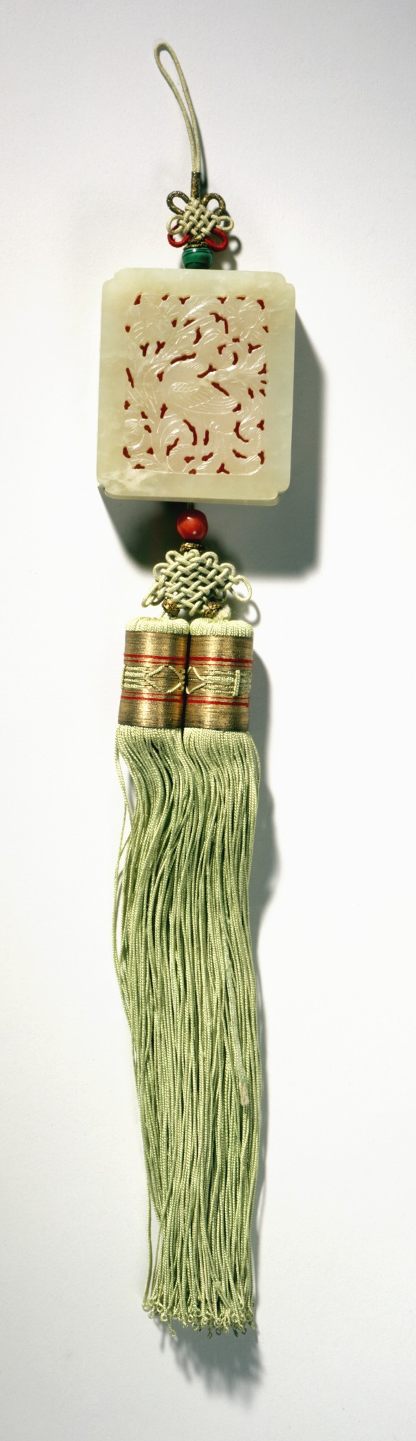 Korea, Joseon dynasty (1392-1910), 19th century Jewelry and Adornments Carved amber, coral, and jade with knotted and metal-wrapped threads and silk string Purchased with Museum Funds (M.2000.15.214) Korean Art